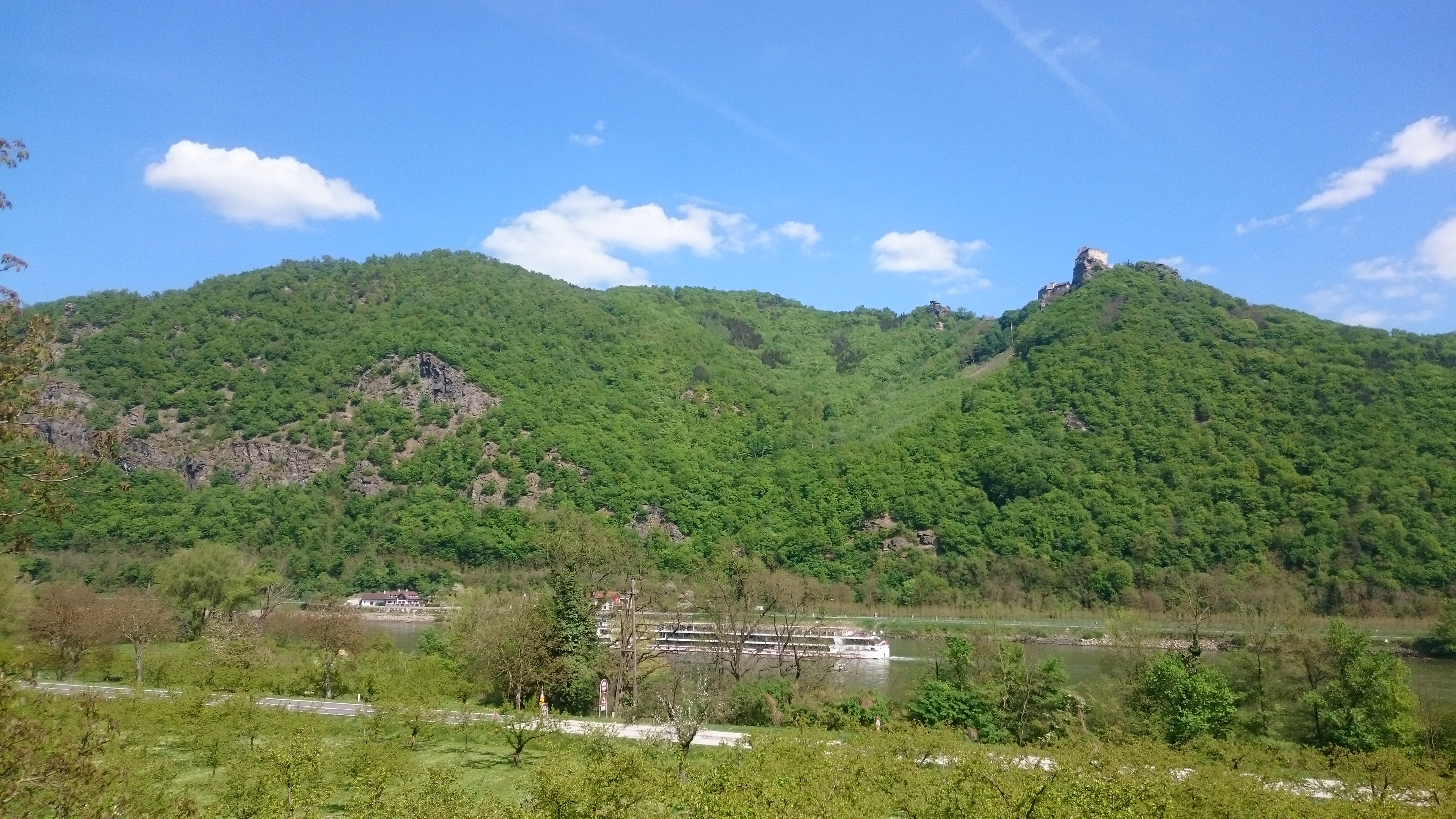 Wachau valley, passenger ship and castle Aggstein